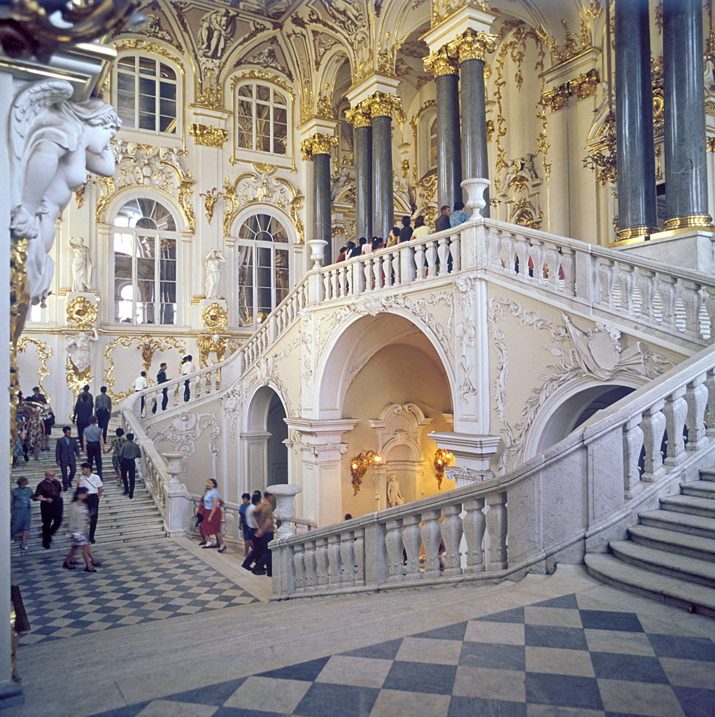 “Main Staircase at the Hermitage”. State Hermitage. Main Staircase.